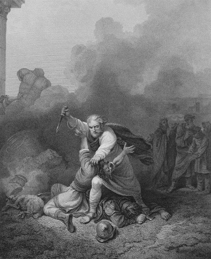 An engraved plate in the Macklin Bible (Cadell & Davies edition of the Apocrypha) after a specially-commissioned painting by Philippe De Loutherbourg. Photographed from the Bowyer bible, Bolton, England. 26.3247. Mattathias Punishing Idolatry. Mattathias with dagger raised to kill the Jew in his arms, standing over another body; smoking ruins including torso of a statue at left and a crowd of onlookers behind at right (1 Macabbees 2:23-25). 1815. Inscriptions: Lettered below image with title, text reference, production detail: "P. J. De Loutherbourg Pinxt.", "C. Heath Sculpt." and publication line: "London, Published June 1st. 1815, by T. Cadell & W. Davies Strand". Print made by Charles Heath. Dimensions: Height: 480 millimetres; width: 384 millimetres.